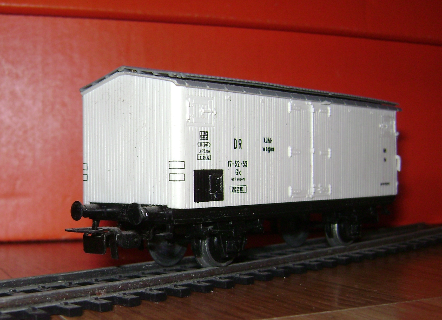 Rail transport model. Piko, Deutsche Reichsbahn wagon